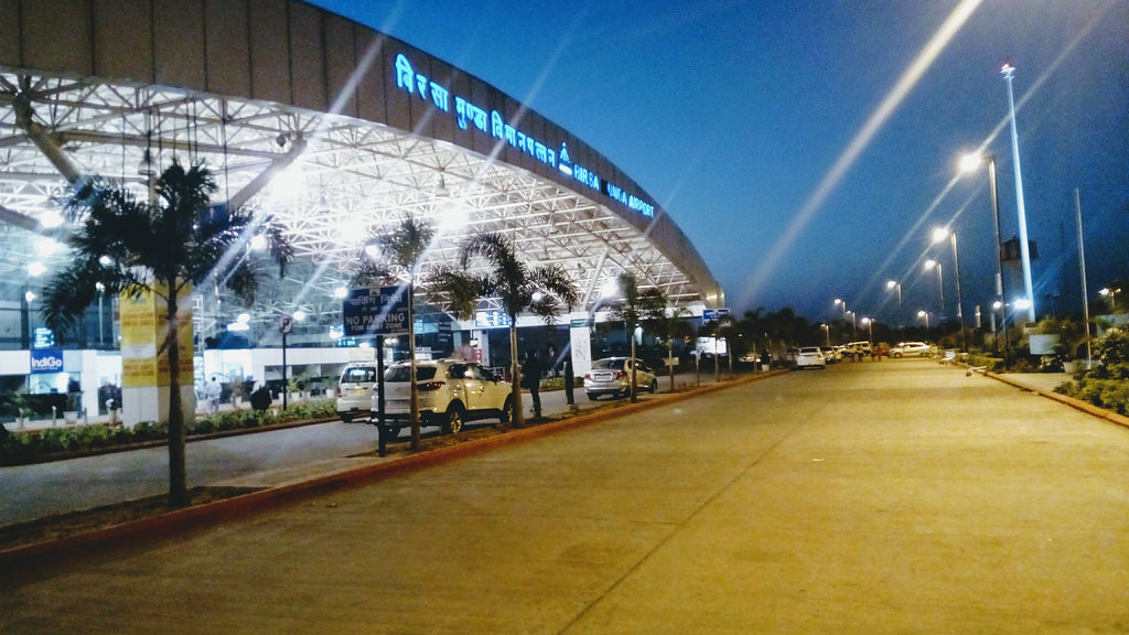 Night View of Terminal at Birsa Munda Airport , Ranchi .